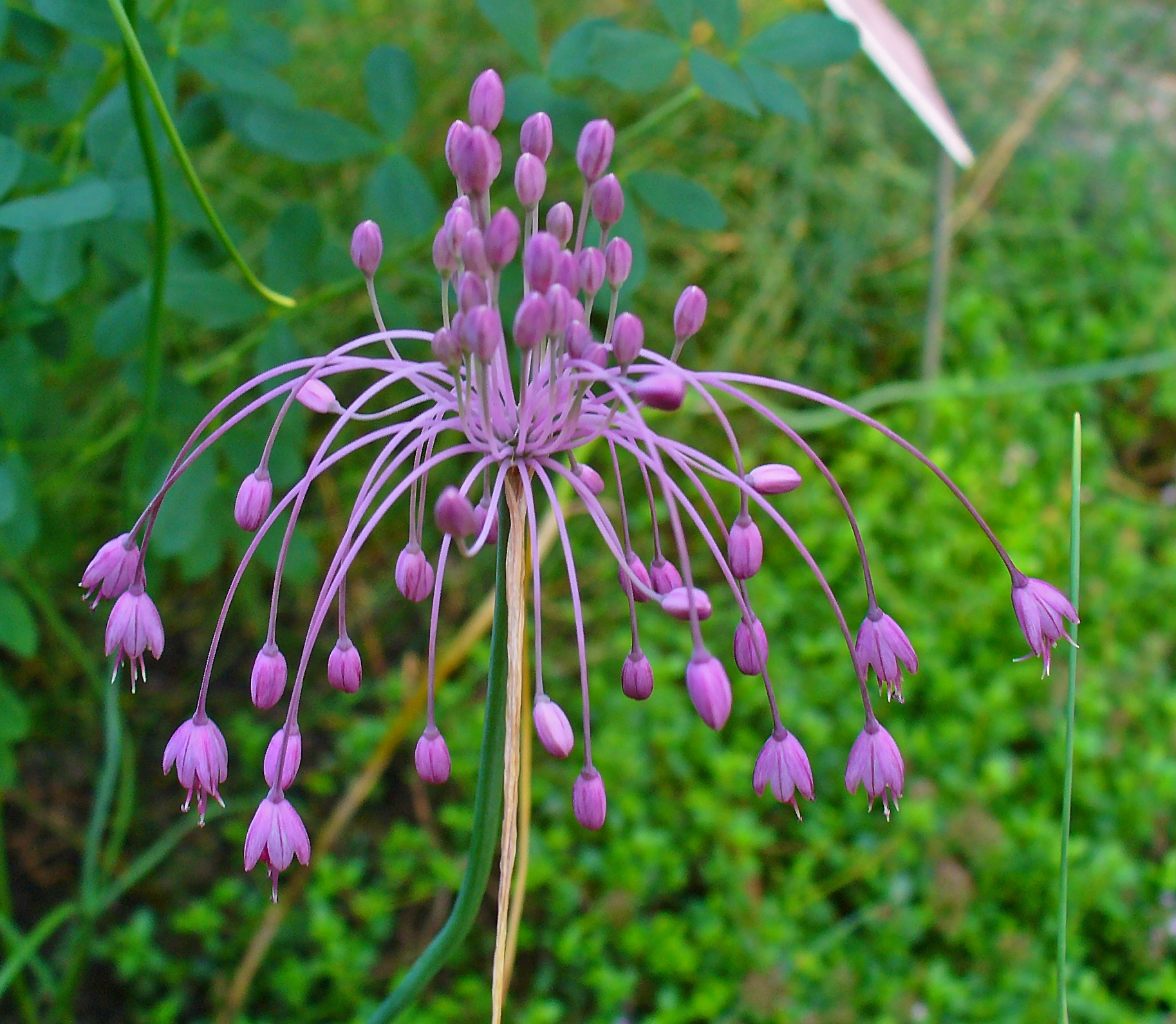 Allium carinatum subsp. pulchellum, Alliaceae, Keeled Garlic, inflorescence. Botanical Garden KIT, Karlsruhe, Germany.